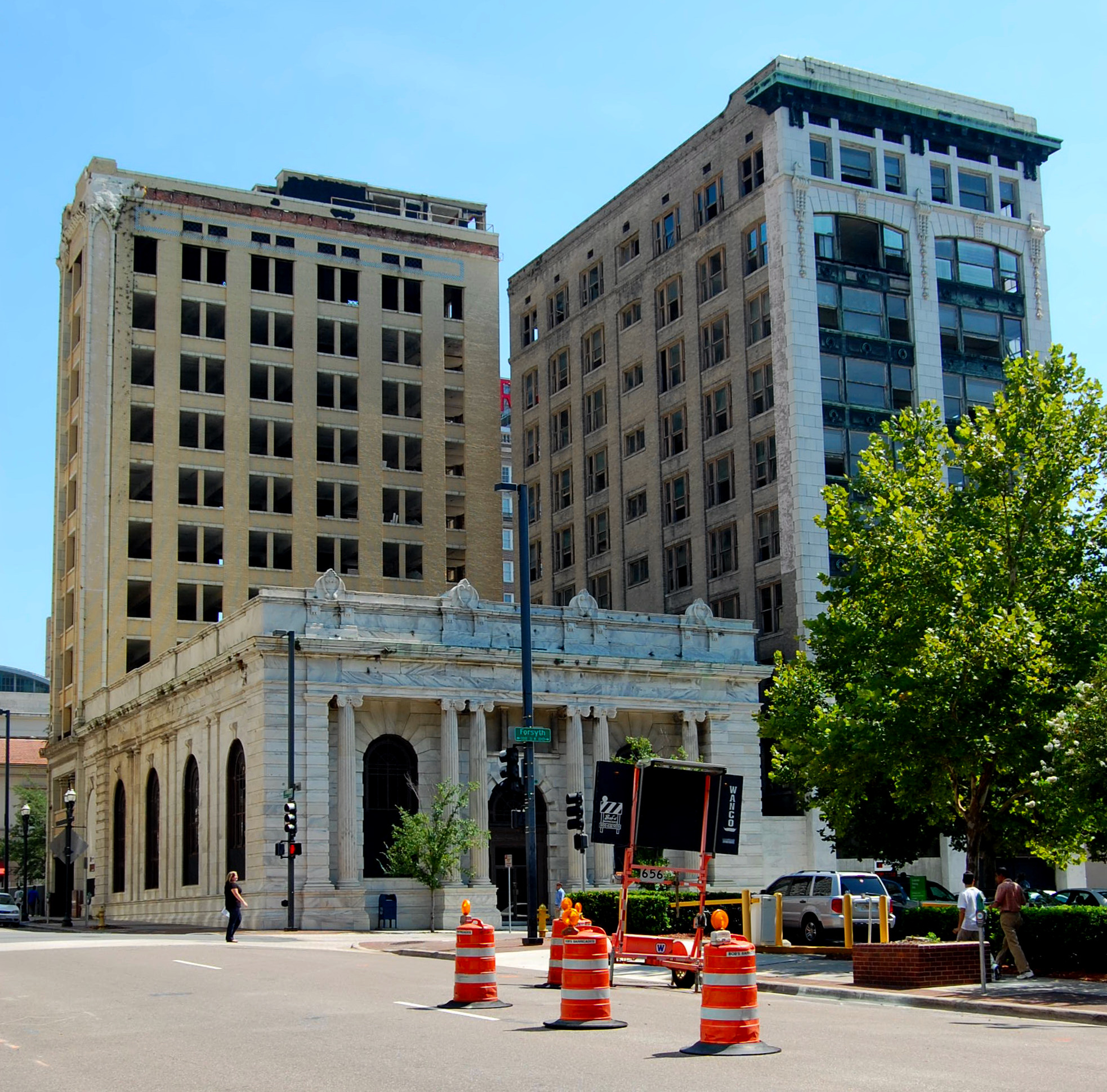 The Florida Life Building (left) the Bisbee Building (right) (both designed by architect Henry John Klutho) and the Marble Bank (center) make up what is known as the Laura Street Trio in Jacksonville, Florida